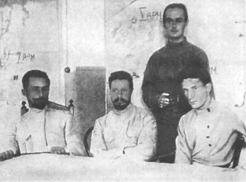 Mikhail Frunze heads the Turkestan front. The image taken during Aug 1920 Red Army troops offensive against the city of Bukhara.